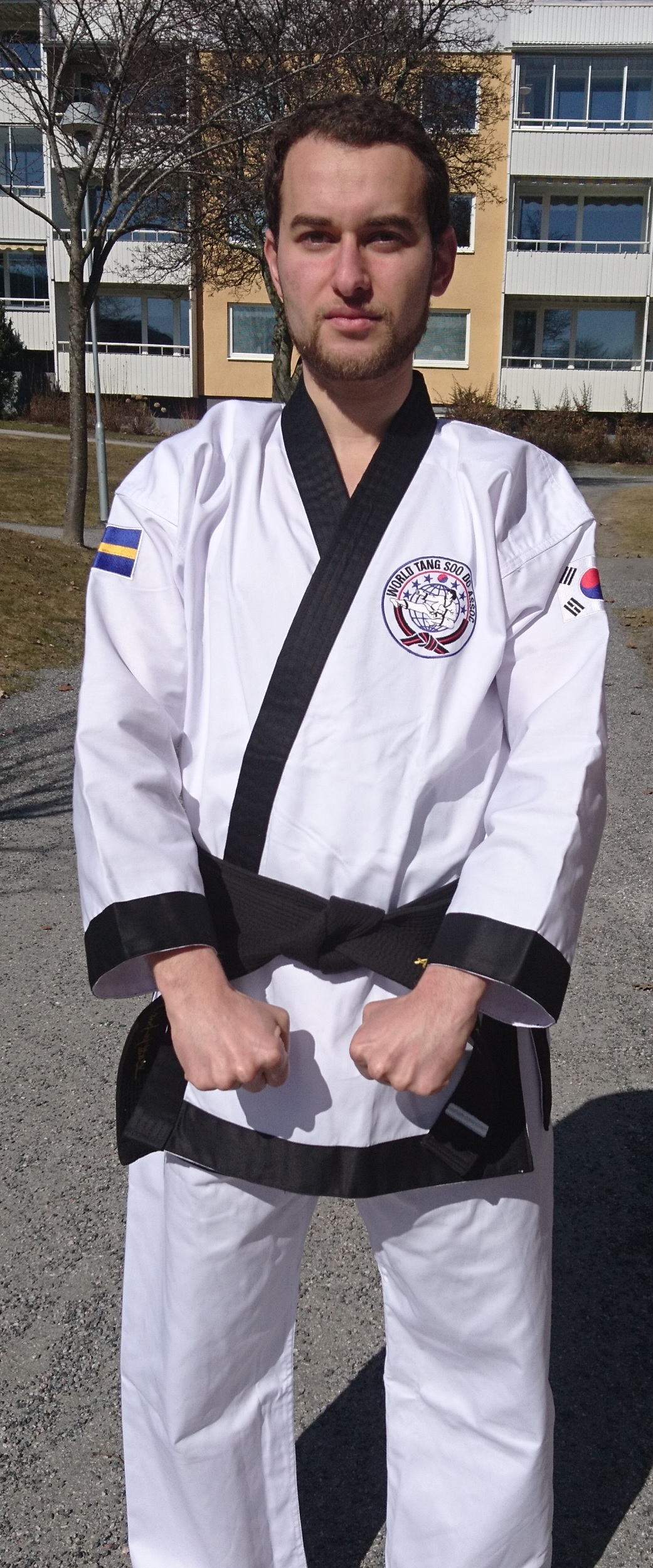 Black Belt Tang Soo Do Practitionner